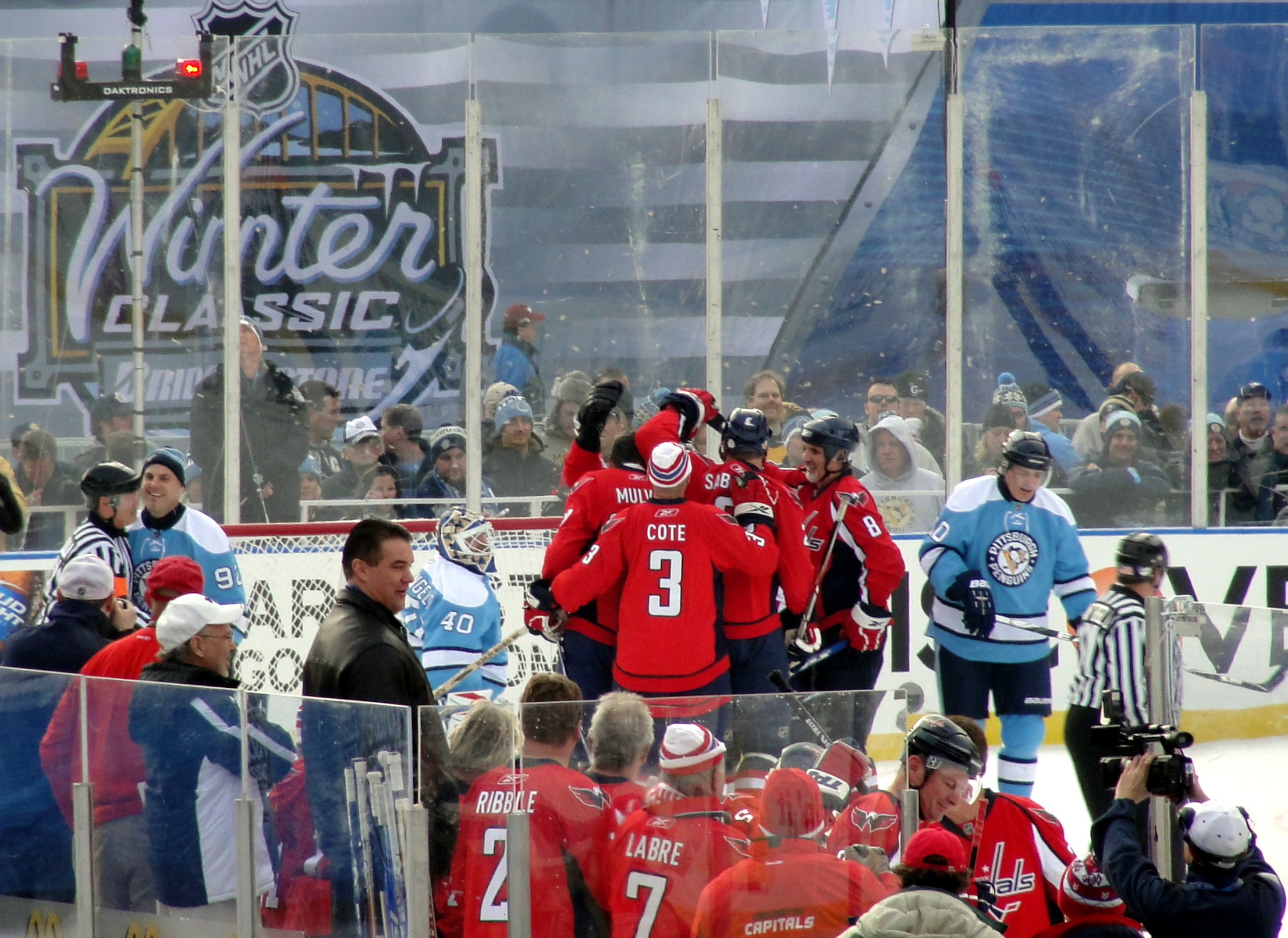 The Washington Capitals alumni squad celebrates Peter Bondra's game tying goal with 45 seconds left in the NHL Legends Game against the Pittsburgh Penguins alumni, December 31, 2010. The game would end in a 5-5 tie.